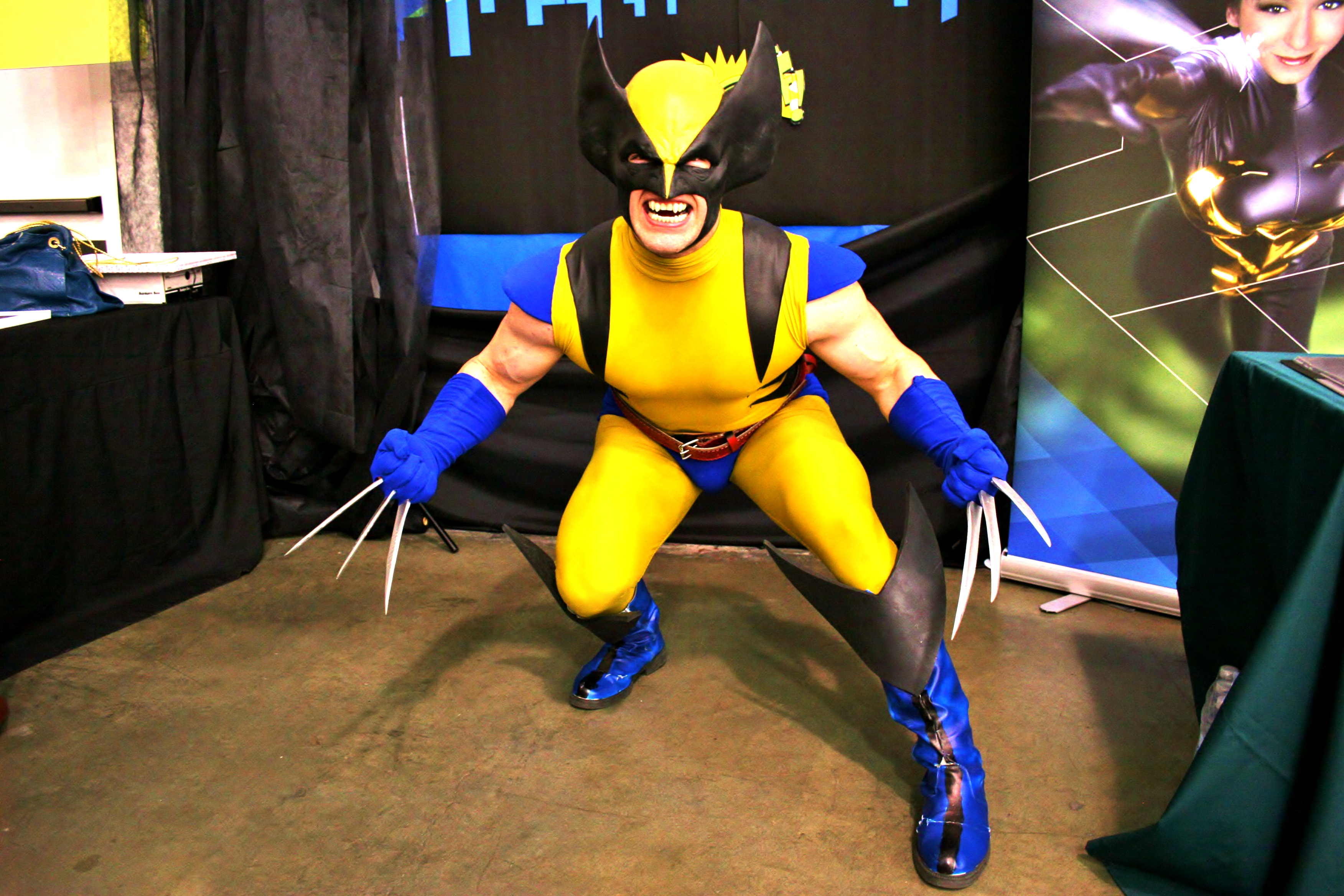 heroesofcosplay